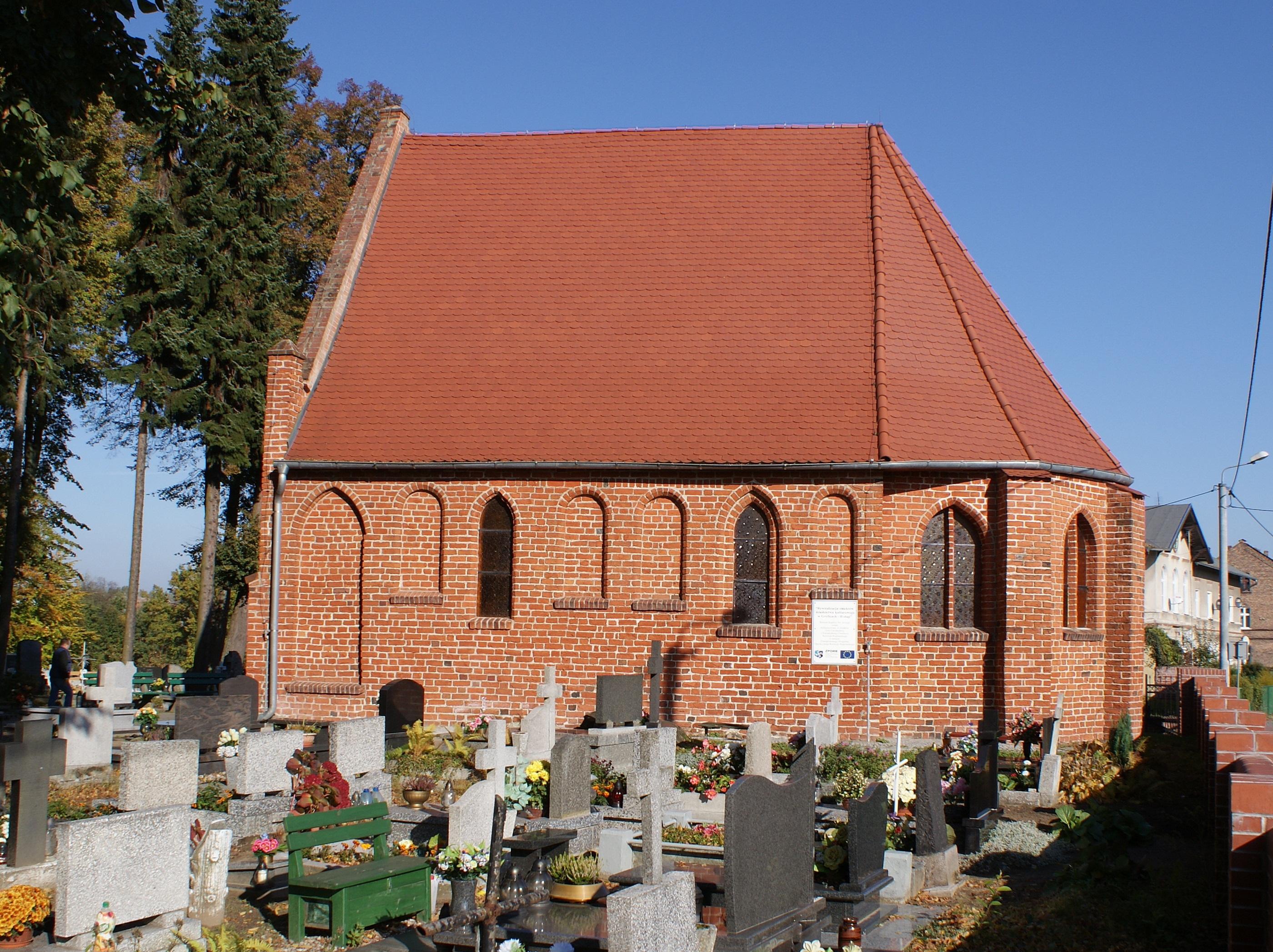 St. George Chapel in Gryfice, Poland